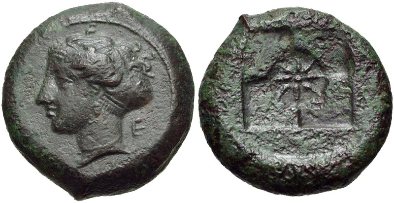 Sicily, Syracusa. Second Democracy. 466-405 BC. Æ Hemilitron = half litra (17mm, 5.37 g). Obverse die signed by the artist E(uainetos?). Struck circa 410-405 BC. Head of Arethusa left, hair in sphendone; E behind Star of eight rays within incuse circle in center of quadripartite incuse square. CNS 16; SNG ANS 398-402. VF, green patina. From the Jörg Müller Collection. The meaning of the E on the obverse of this type has been the subject of much debate, and is most likely an artist’s signature, perhaps that of the engraver responsible for the famous issue of decadrachms, Euainetos.